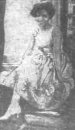 Photo of Hilda Perleno in 1926. Renewal searches were done in periodicals for the years 1953 and 1954. There were no listings for The Evening News-there's no evidence of current copyright.